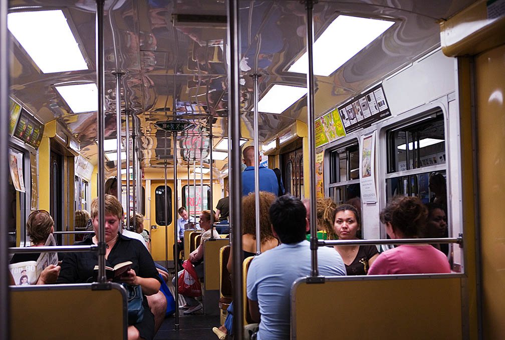 Interior of an older car in the Stockholm Metro.